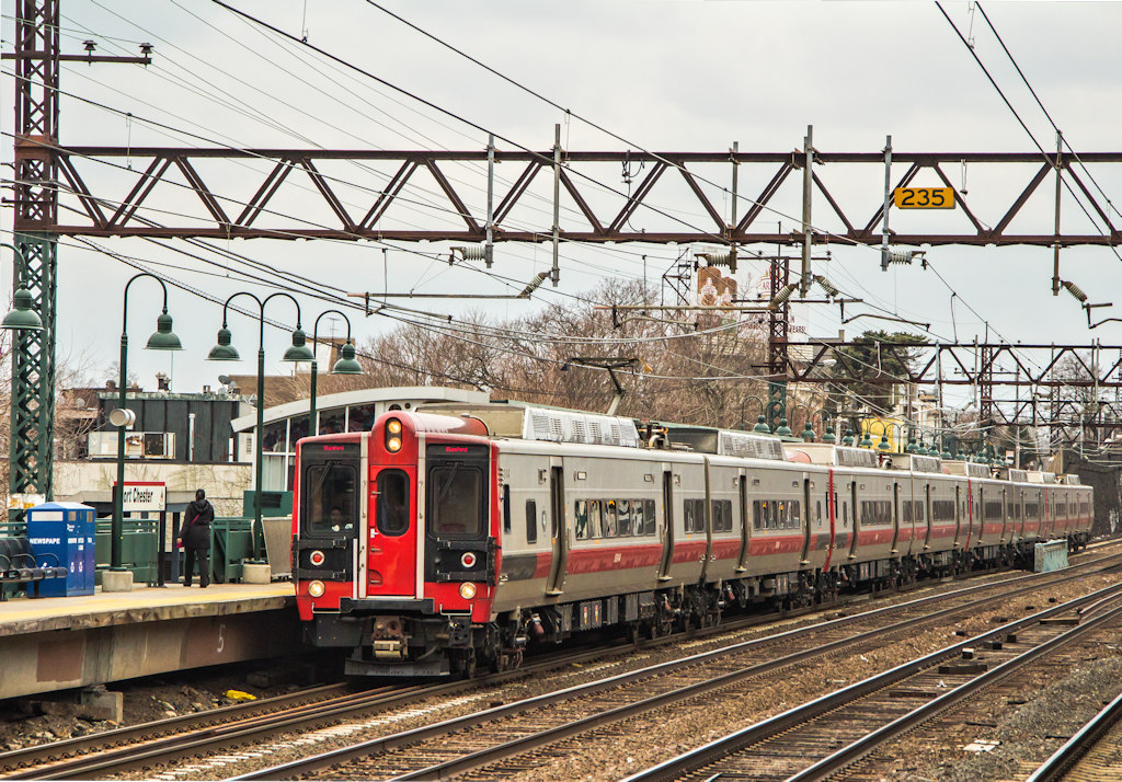 Metro-North Commuter Railroad Kawasaki M-8 EMU on the New Haven Line in Port Chester, New York